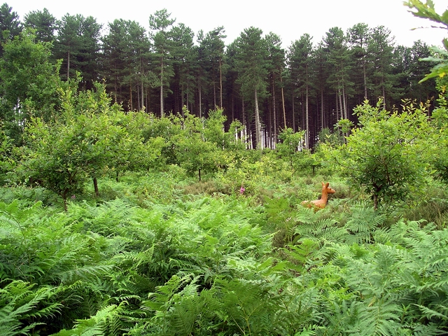 Childhood Wood A wooden deer sculpture is peeping above the bracken in Childhood Wood. This area of Sherwood Pines Forest Park is dedicated to children who lost their lives to mucopolysaccharide (MPS) disease, in which there is a deficiency of certain enzymes. MPS is degenerative & there is no cure. Most sufferers do not survive to adulthood. Planting was begun, in 1993, of oak saplings cloned from ancient Sherwood oaks, each one commemorating the life of a child who died from MPS. It is intended to develop and add to the area as the trees grow. For more information on Childhood Wood and the MPS Society